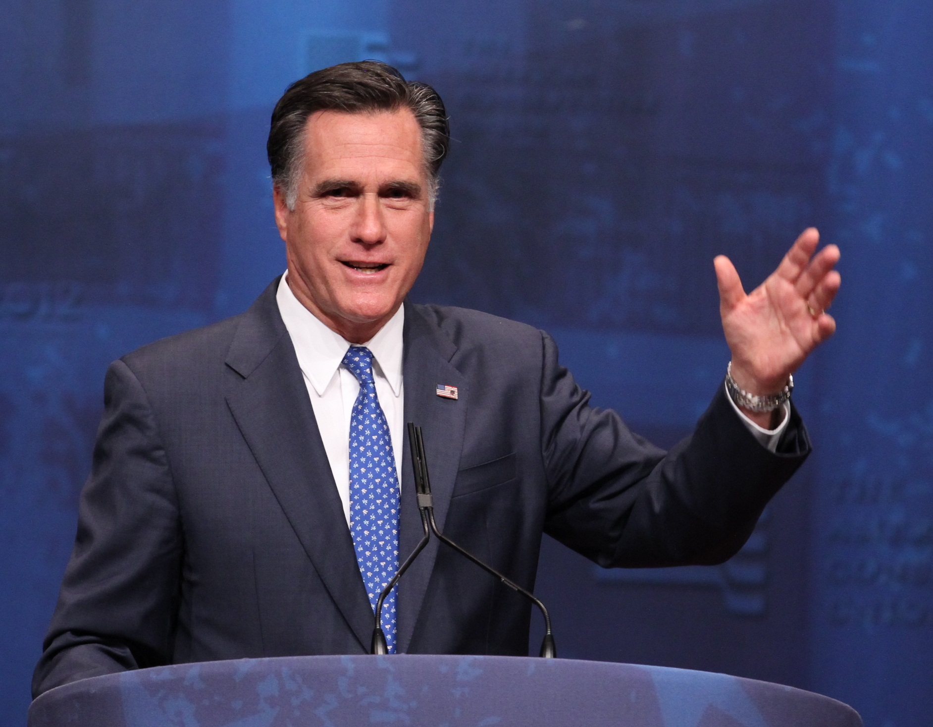 Mitt Romney speaking at the 2012 CPAC